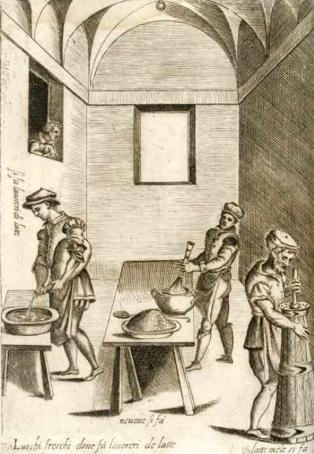 Illustration of mediaeval kitchen